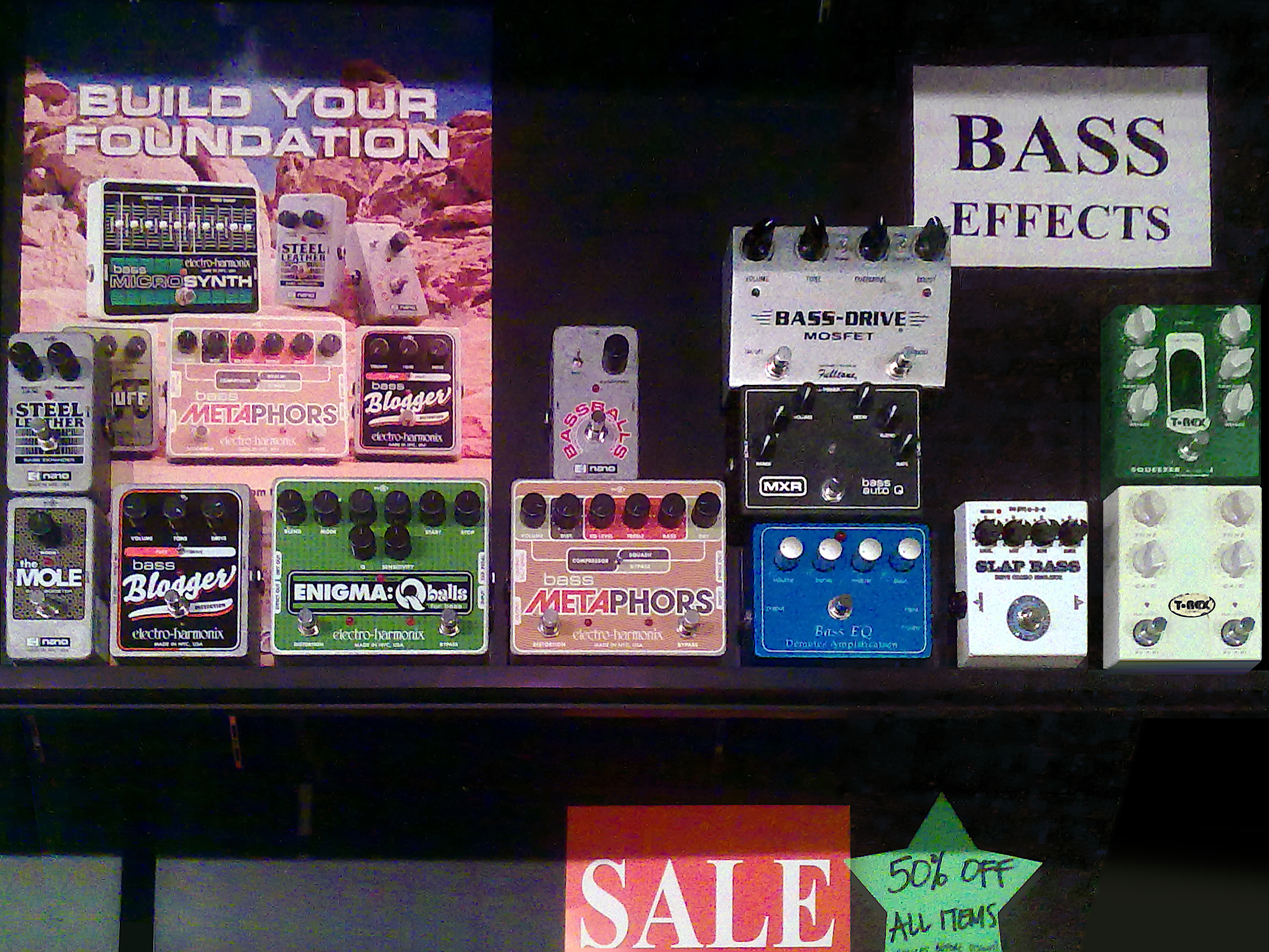 Bass effect pedals Electro-Harmonix fulltone MXR Demeter AMT